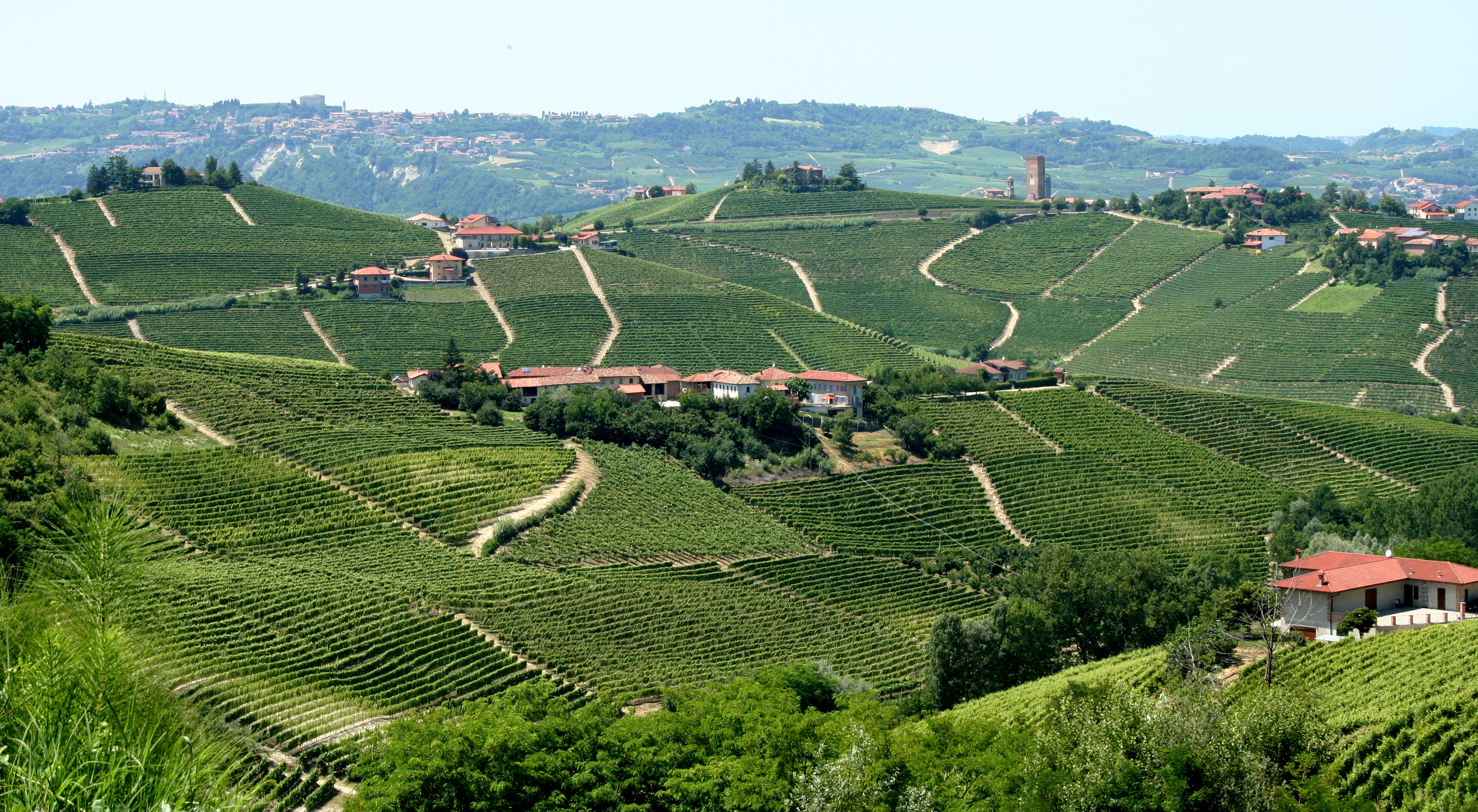 Vineyards in the Italian wine region of Piedmont